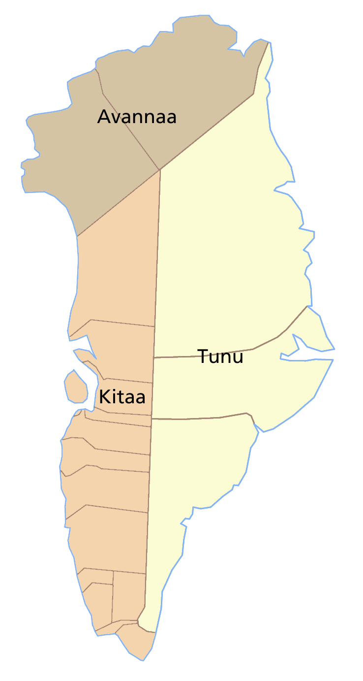 The three counties of Greenland: Kitaa/Vestgrønland (West Greenland), Tunu/Østgrønland (East Greenland) and Avannaa/Nordgrønland (North Greenland)